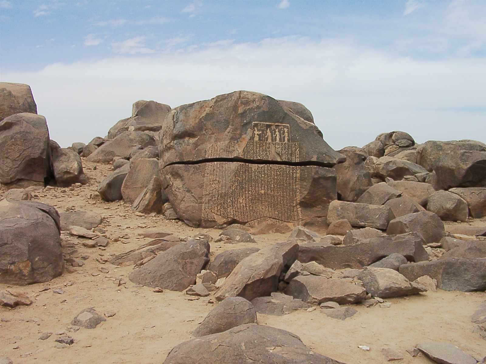 The Famine-stela on the Sehel Island, near Aswan, in 2006.